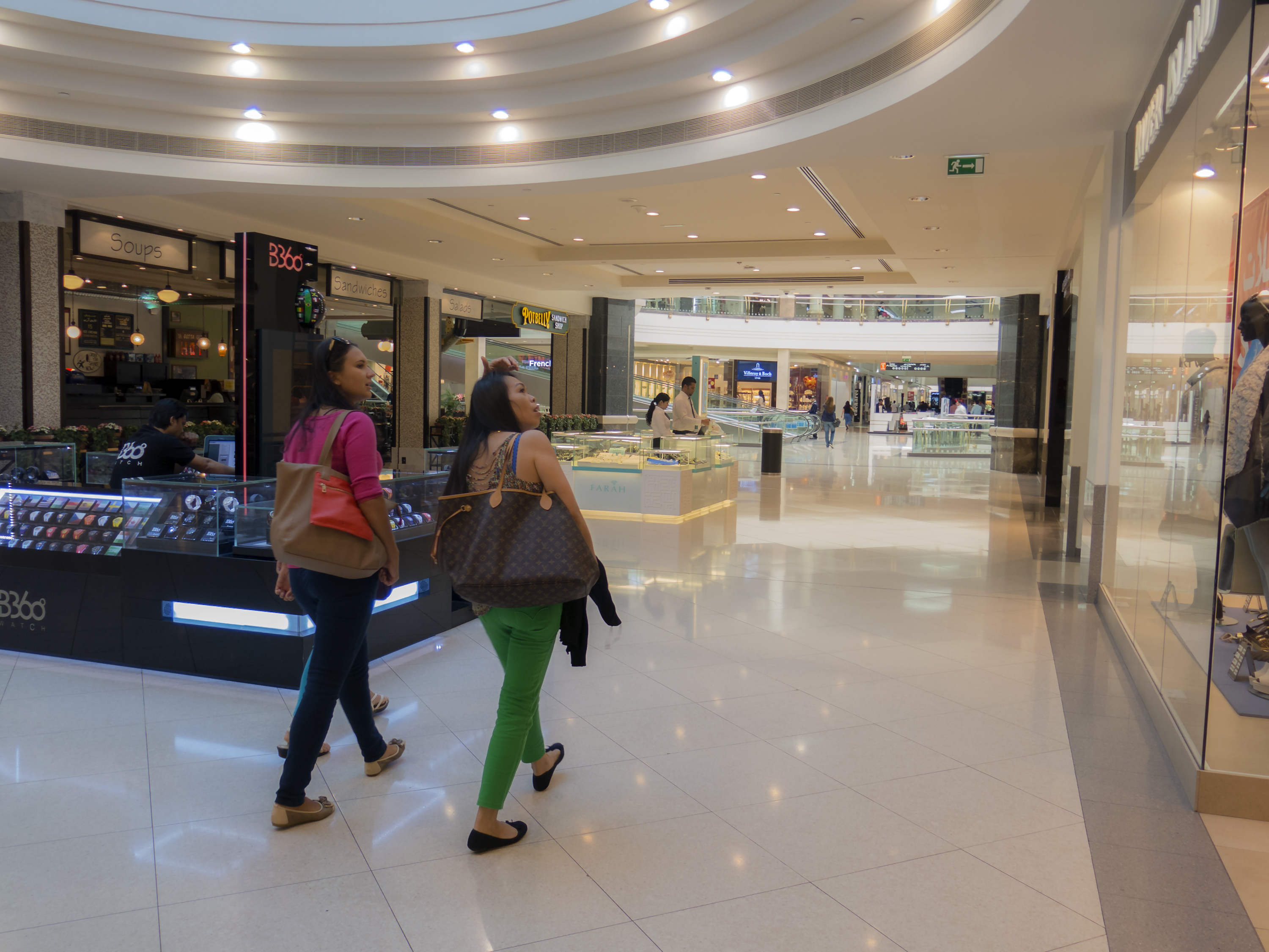 Tourism is travel for pleasure or business; also the theory and practice of touring, the business of attracting, accommodating, and entertaining tourists, and the business of operating tours.